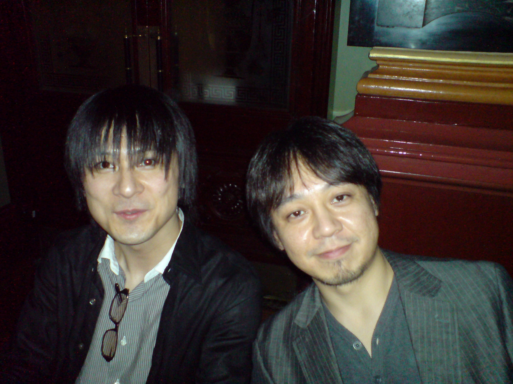 Video game composers Yasunori Mitsuda and Hitoshi Sakimoto.